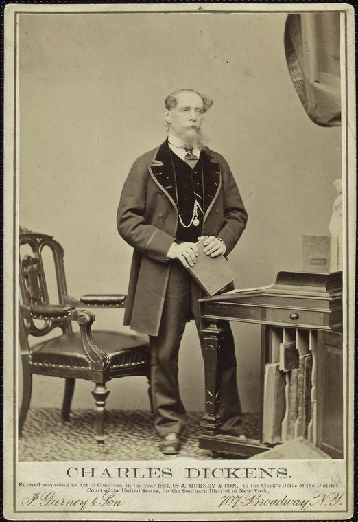 Charles Dickens, circa 1860